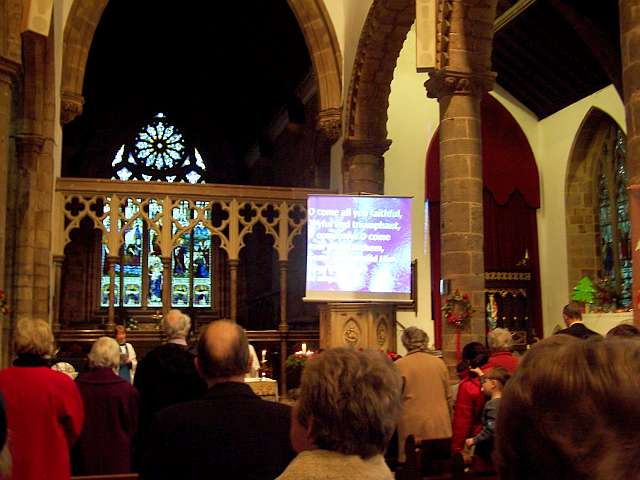 Inside the nave of St Mary's parish church, Ilkeston, Derbyshire, looking east to the chancel during the Christmas morning service. The congregation is standing and singing "O Come All Ye Faithful".